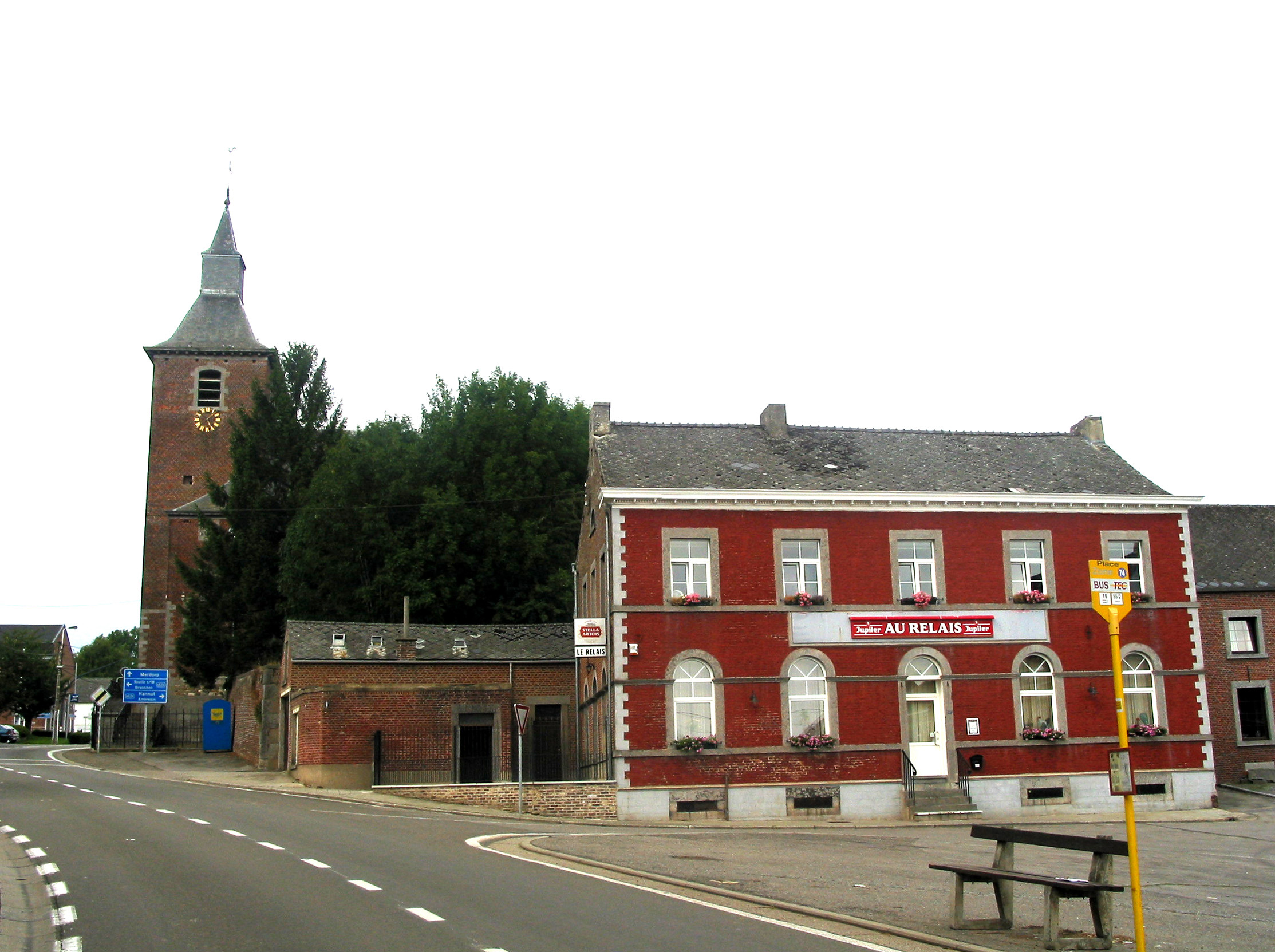 Wasseiges (Belgium), Hannut road.